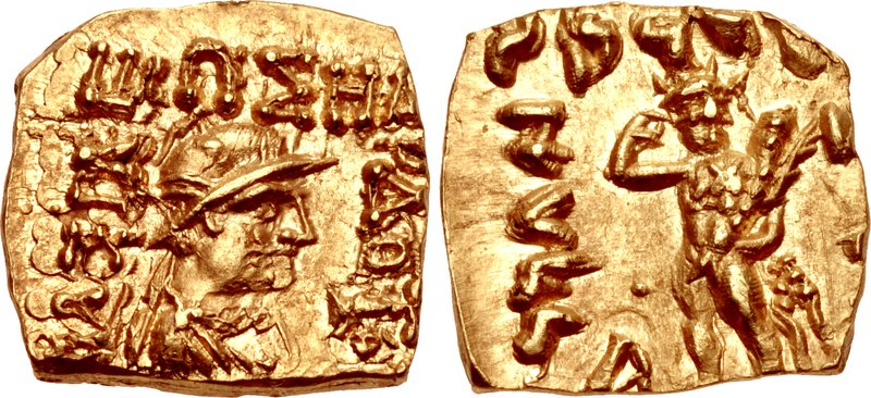 Gold Coin of the Indo-Greek king Heliodotos, around 100 BC, Front inscription BAΣIΛE/ΩΣ HA/PΔOTO[Y] in Greek, with depiction of the king, obverse inscription “Maharajasa Heliyadotasa” in Kharosthi and Heracles standing holding a palm frond